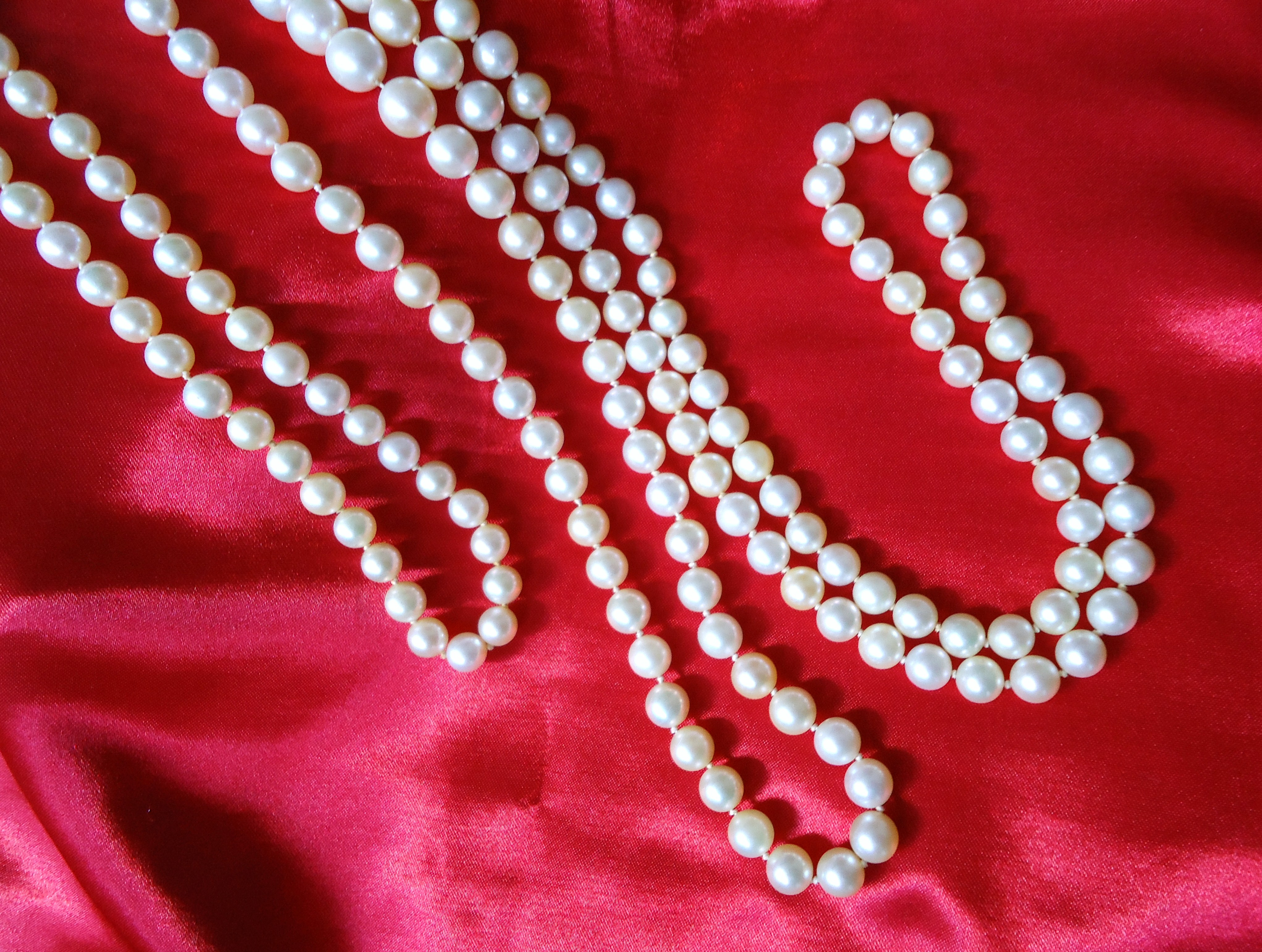 Akoya pearls from Japan. Photo: Mauro Cateb